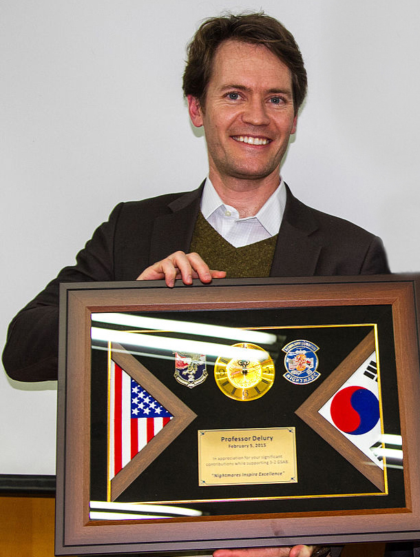 This is crop of the original